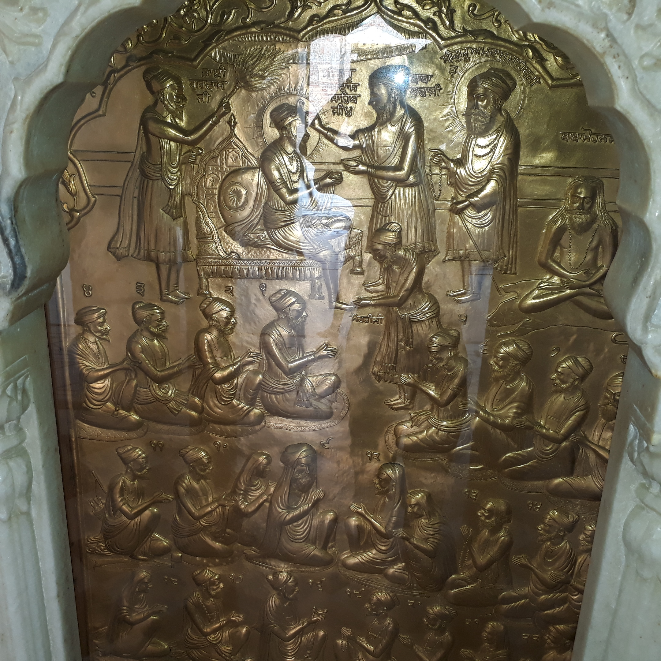 22 Missionaries were established for spread of sikhism by Guru Amardas ਪੰਜਾਬੀ: ਗੁਰੂ ਅਮਰਦਾਸ ਨੇ ਸਿੱਖੀ ਦੇ ਪ੍ਰਚਾਰ ਲਈ 22 ਮੰਜੀਆਂ ਸਥਾਪਿਤ ਕੀਤੀਆਂ